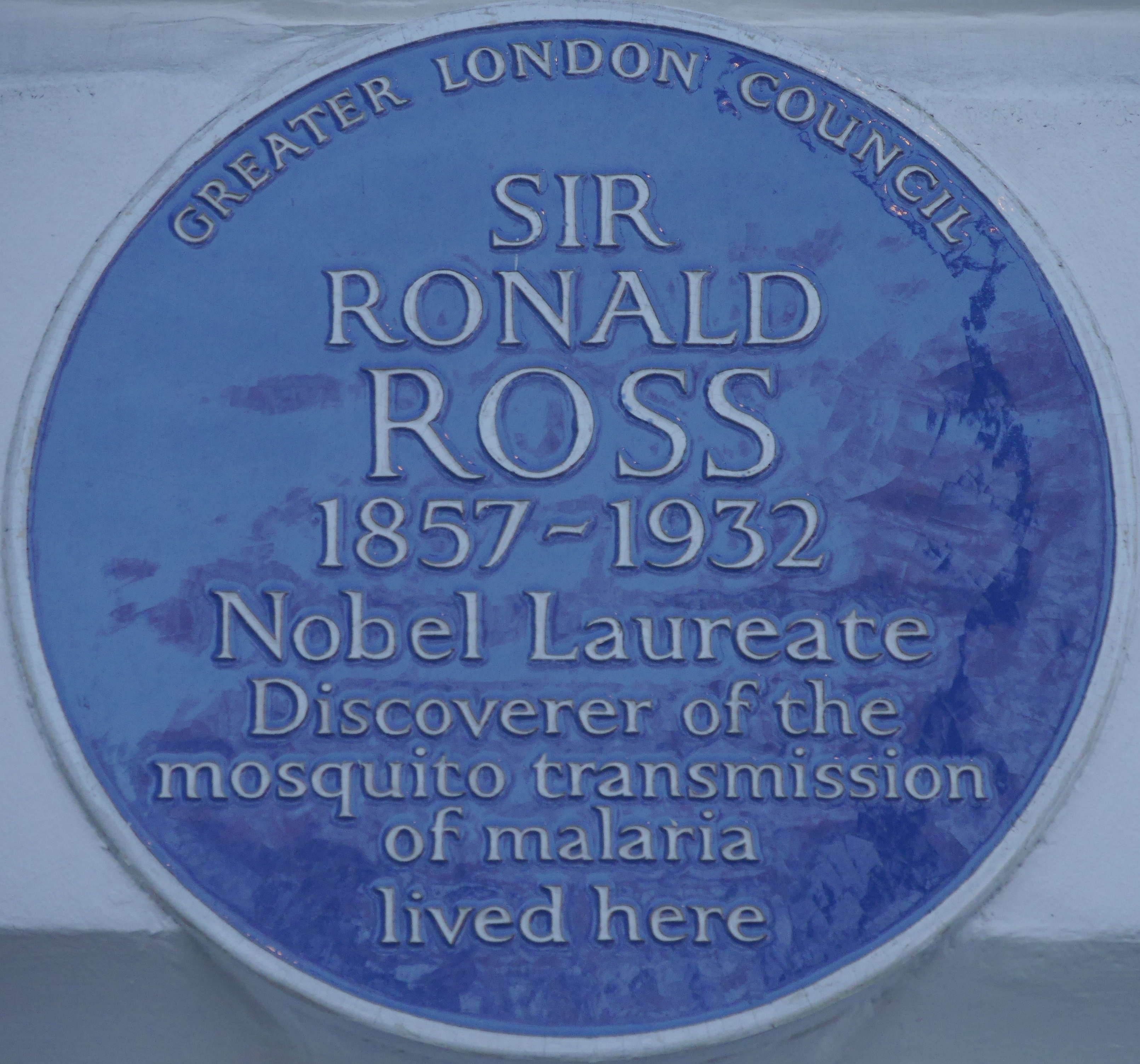 Ronald Ross 18 Cavendish Square blue plaque